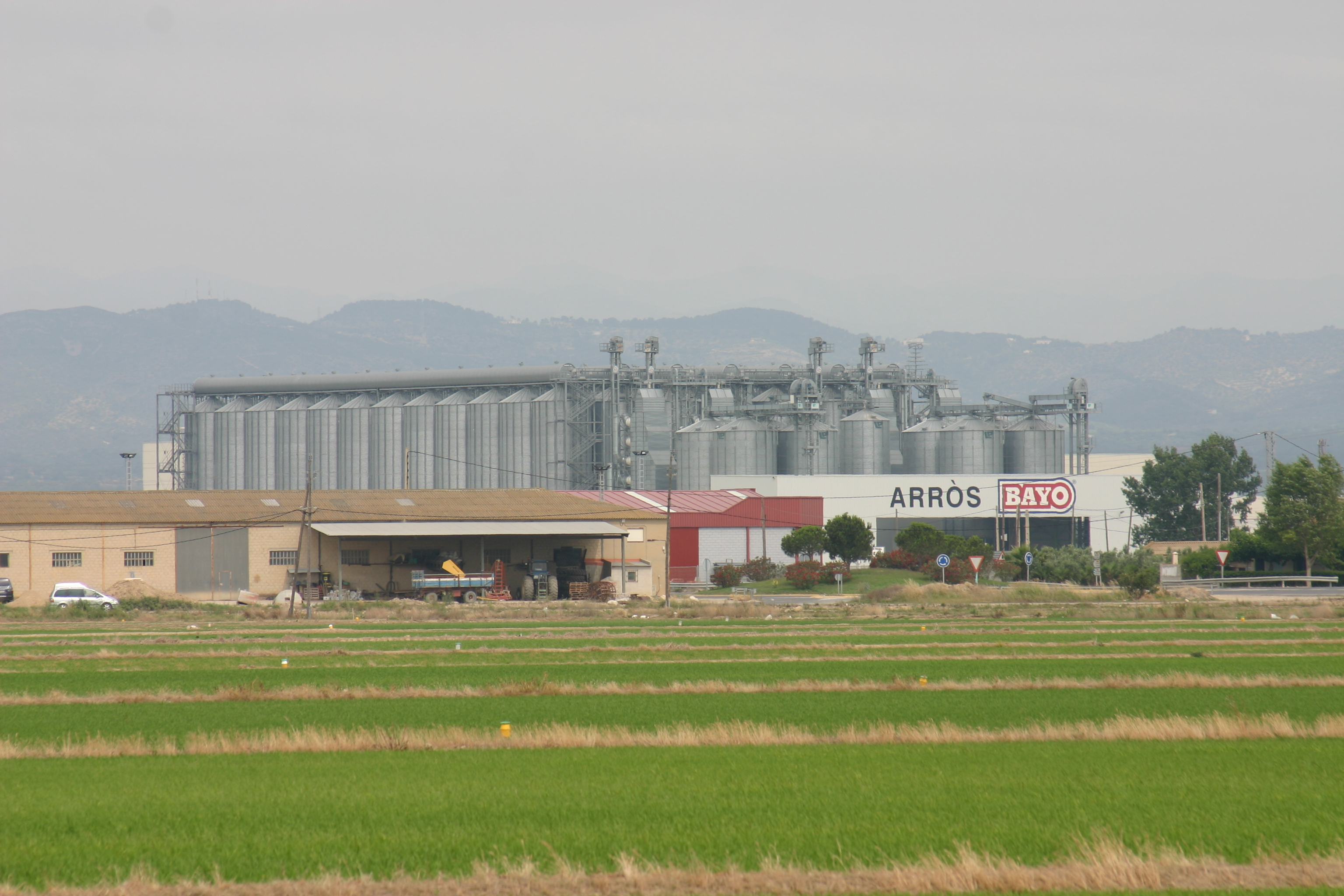 Silo of rice